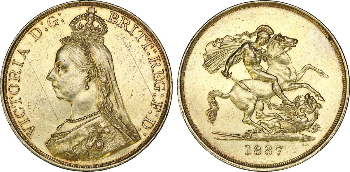 5 Livres à l'effigie de la reine Victoria commémorant le Jublilée de la monarque, 1887. Description avers : Buste couronné de Victoria à gauche avec une robe d'apparat Description revers : Saint-Georges à cheval bondissant à droite, casqué, nu, le manteau flottant sur l'épaule, terrassant le dragon ; signé B.P.